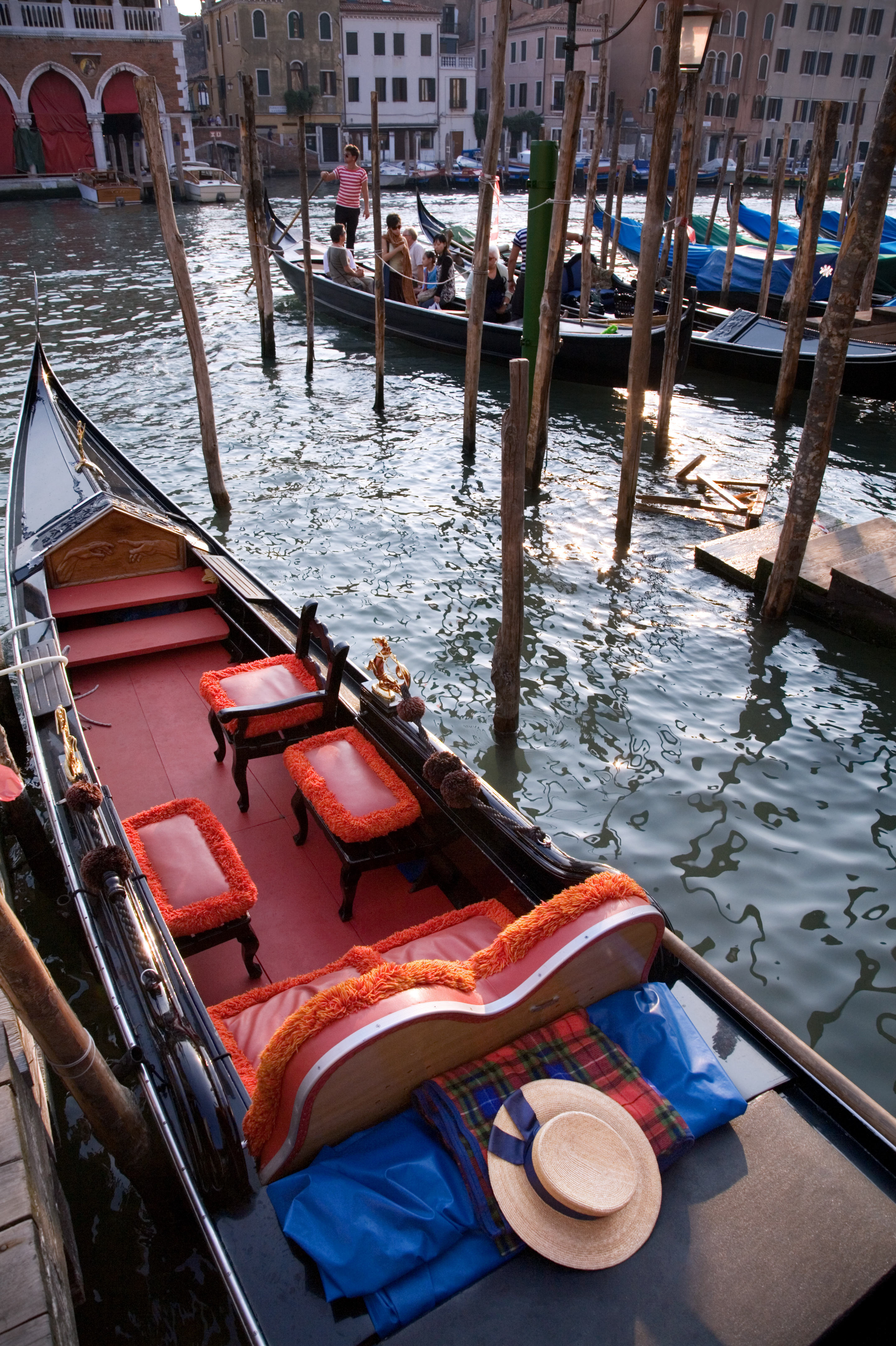 Gondolas in the Grand Canal. Venice, Italy 2009